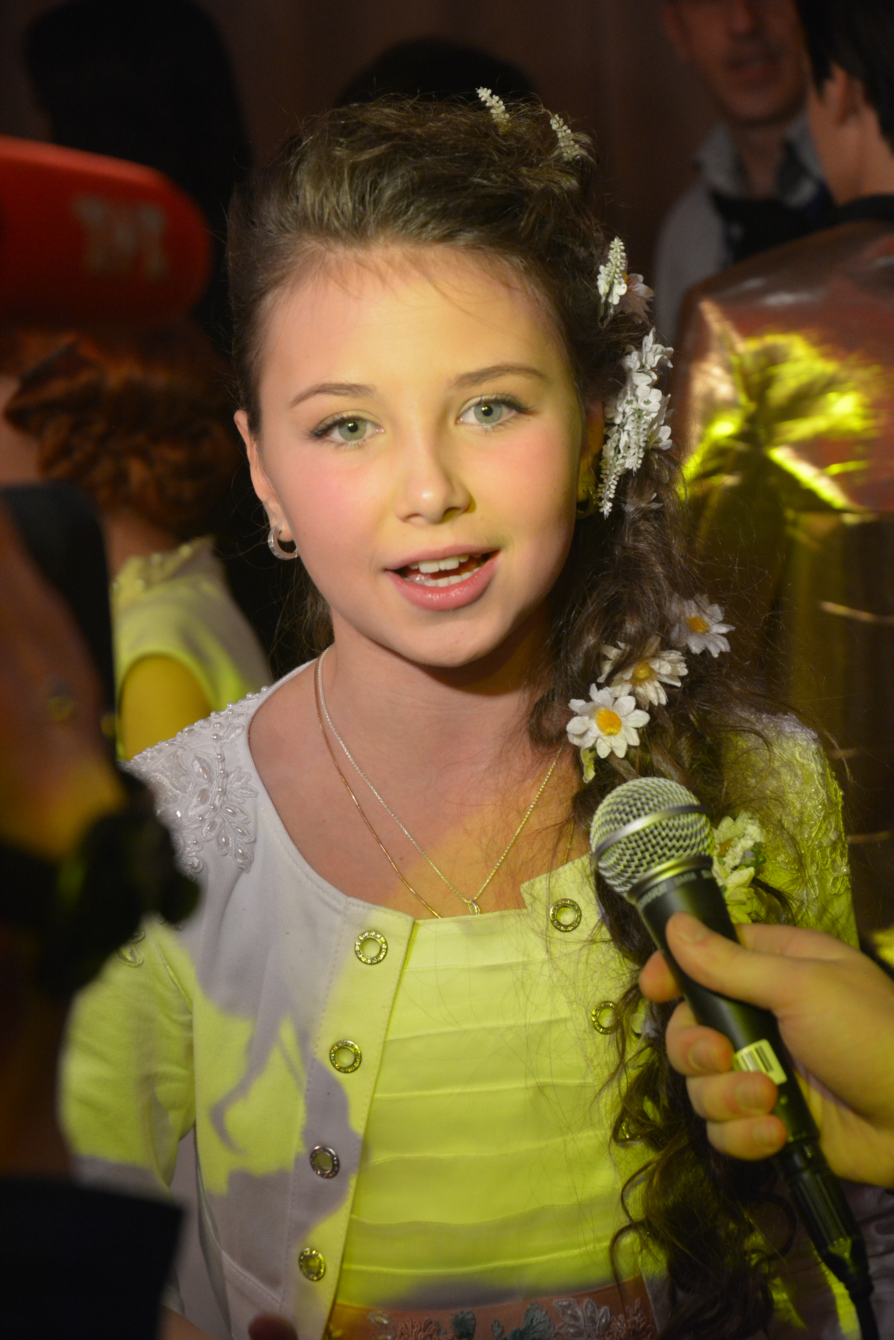 Sofia Tarasova at JESC 2013 winners' press conference